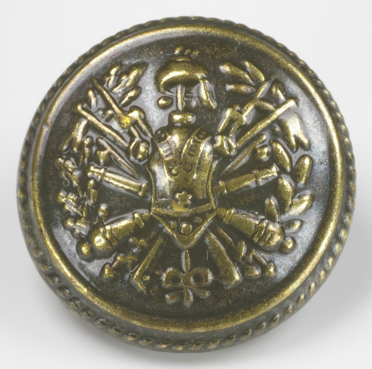 Button of a 1979 Italian Army uniform.